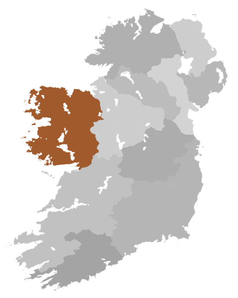 Location map of the Church of Ireland Diocese of Tuam, Killala and Achonry Information source: Church of Ireland website]